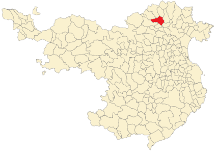 Capmany